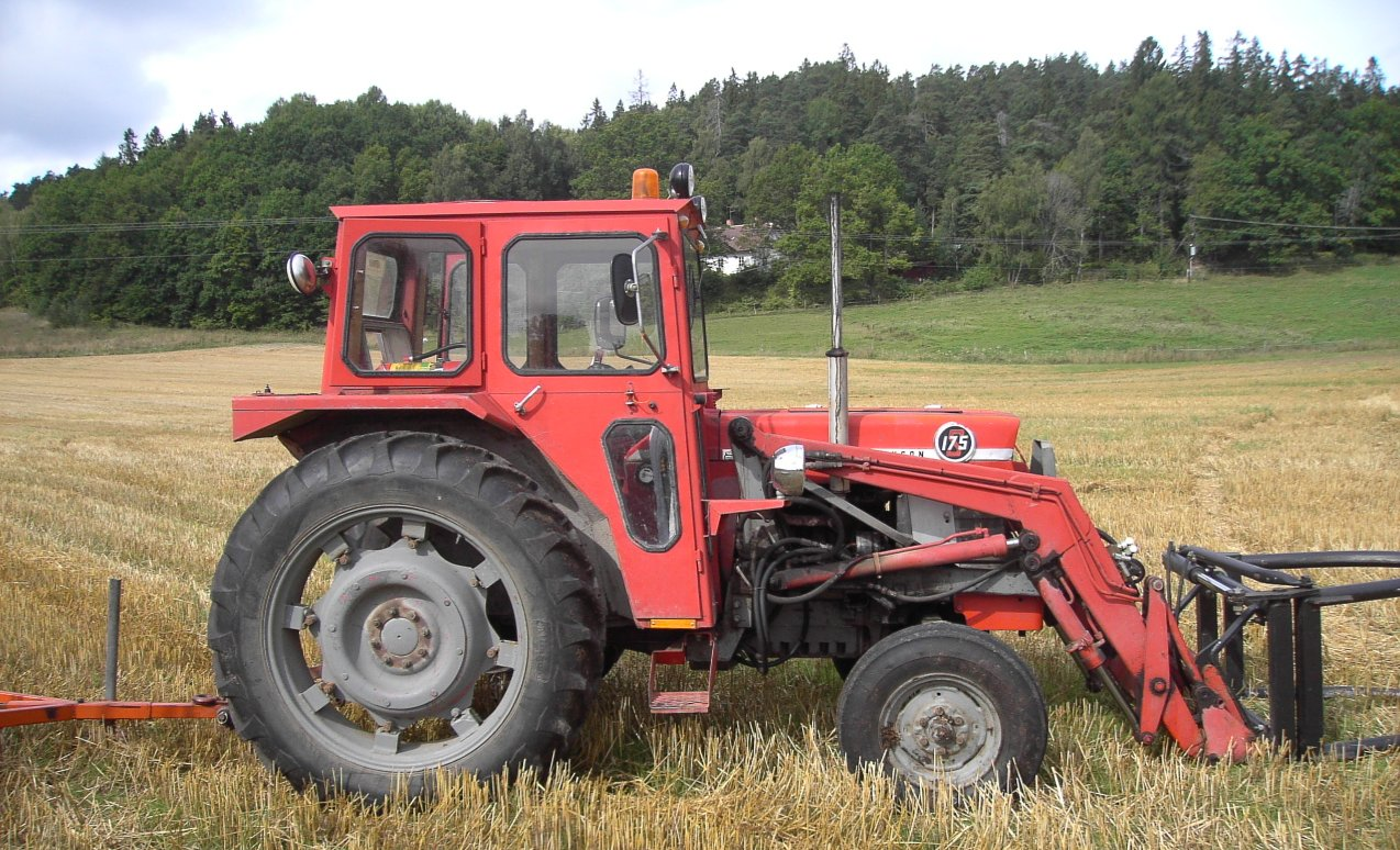 A red Massey Ferguson 175. This model was produced 1965-1967 and has 66 horsepowers, 6 gears forward, 2 gears reverse, 4 cylinders and 3865 cc. Weight 2450 kg. The exact model seem to be MF 175 S Multi-Power. Location: Near Hults bruk, Norrköping, Östergötland, Sweden